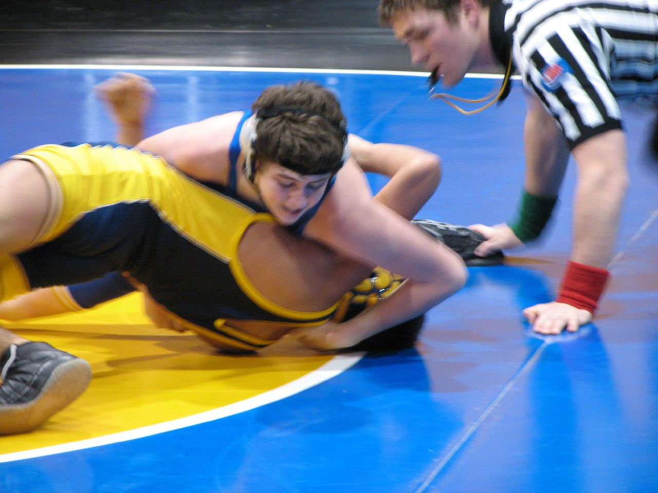 Two high school students wrestling (collegiate, scholastic, or folkstyle) in the United States. Originally uploaded by Wikiman86 on the English Wikipedia project at